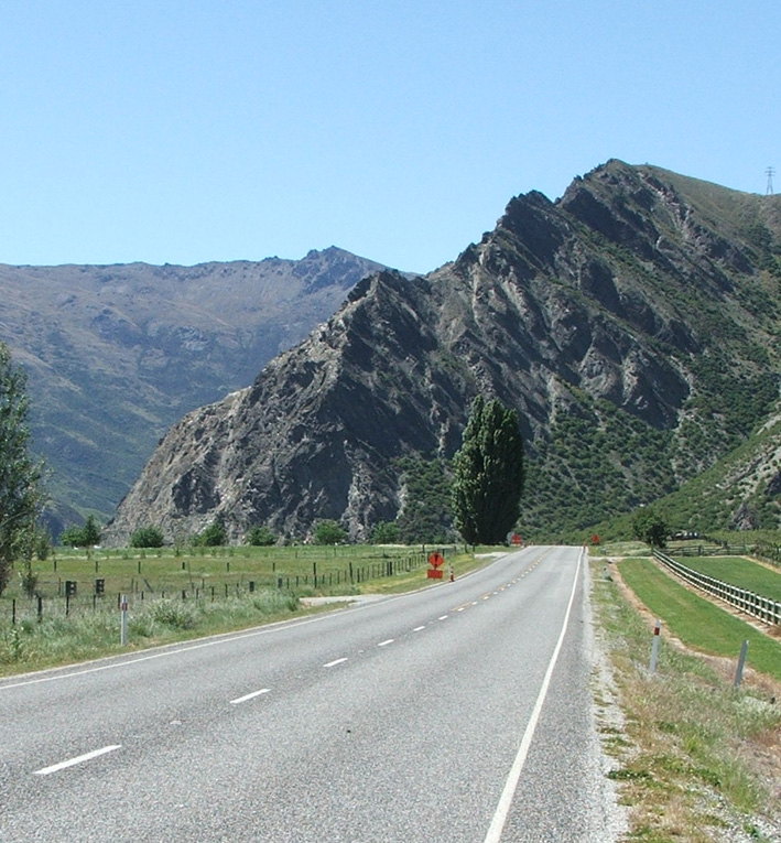 State Highway 6 (New Zealand) rounds the foot of the Nevis Bluff in Central Otago. Photograph by James Dignan (User:Grutness), Nov 25, 2008.